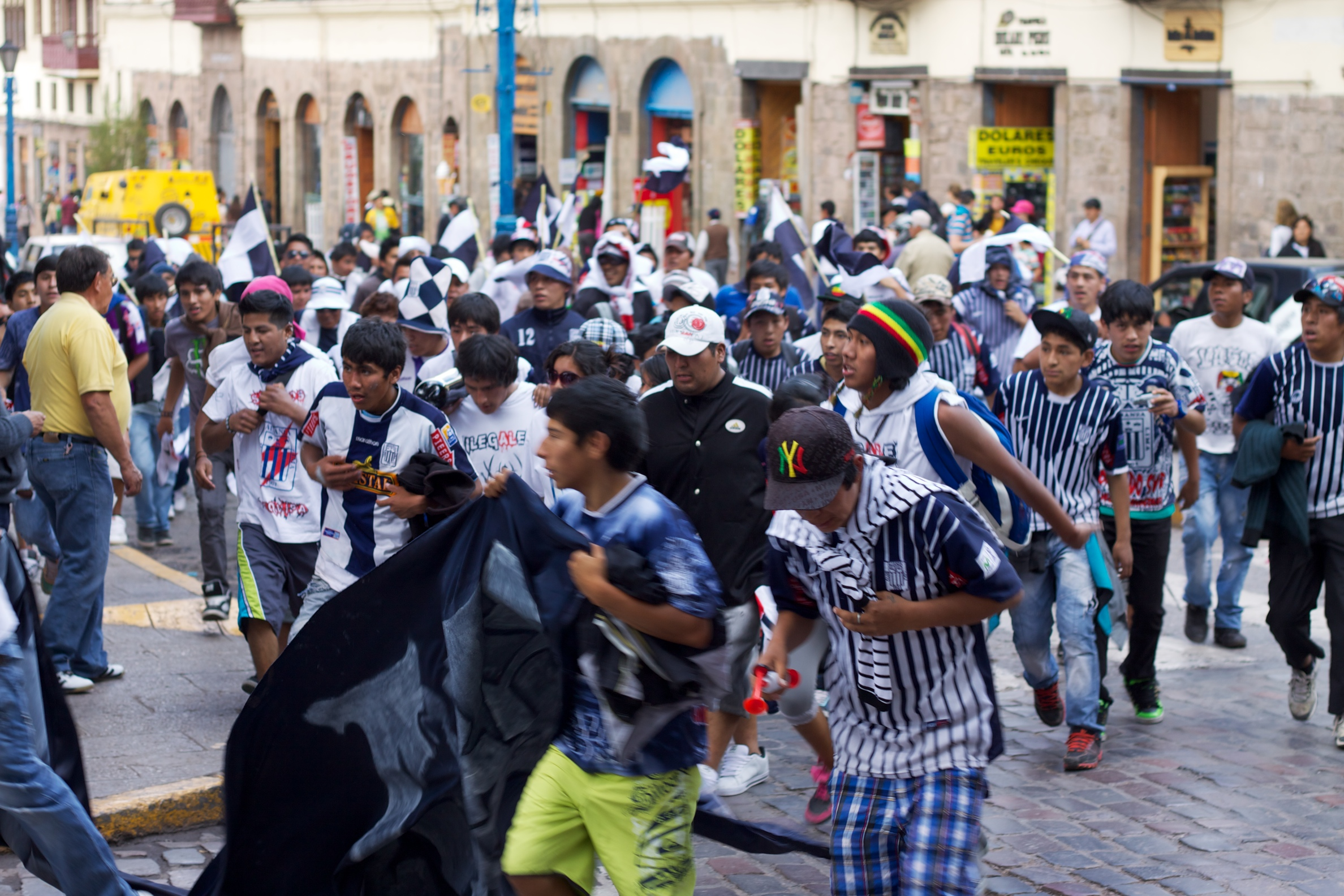 Peru - Cusco 175 - football fans parade